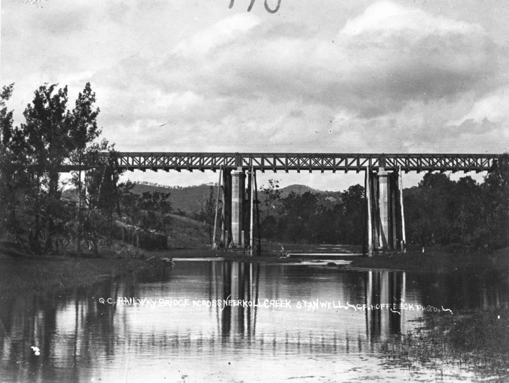 Railway bridge across Neerkol Creek near Stanwell